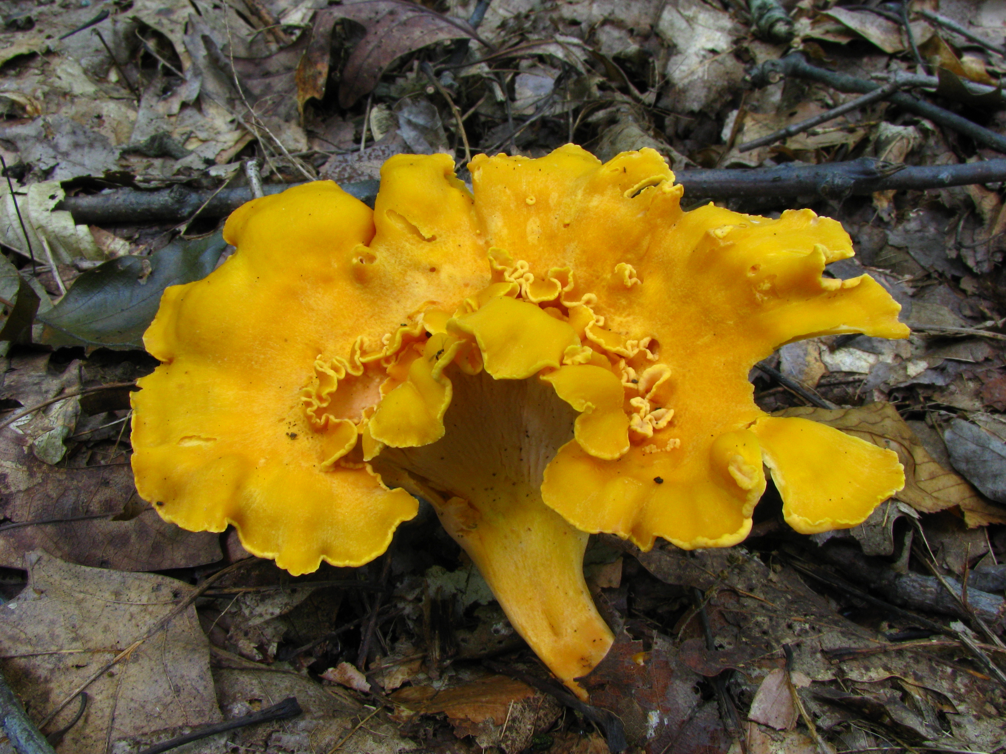 The mushroom Cantharellus lateritius (Berk.) Singer. Photographed in Wayne National Forest, Athens Co., Ohio, USA.